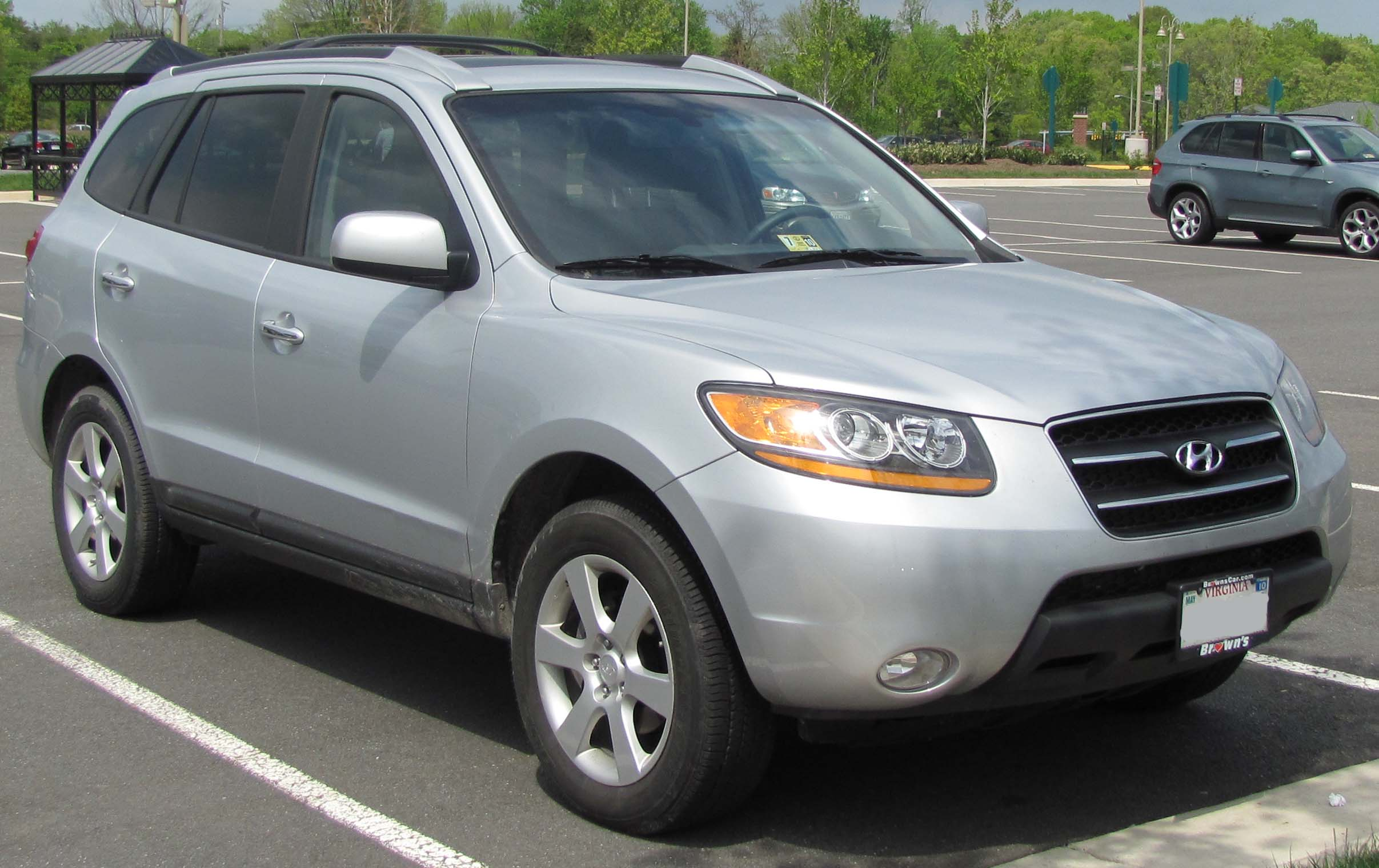 2007-2009 Hyundai Santa Fe photographed in Gainesville, Virginia, USA.